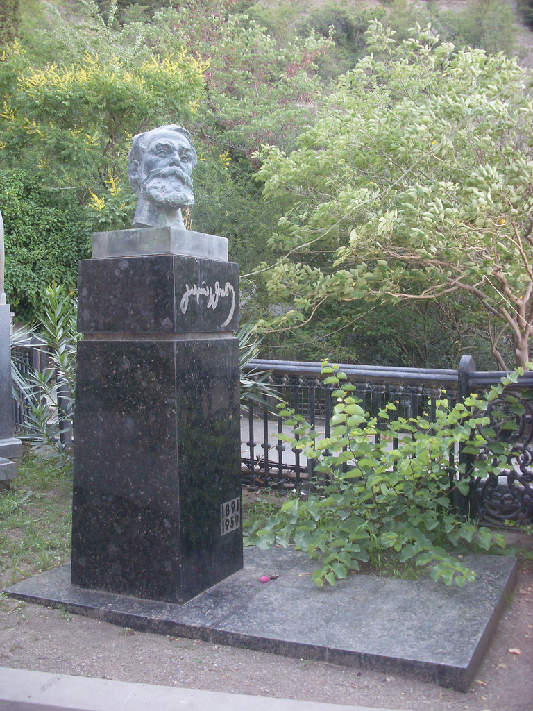 Grave of a georgian poet Galaktion Tabidze in pantheon (Tbilisi, Georgia)